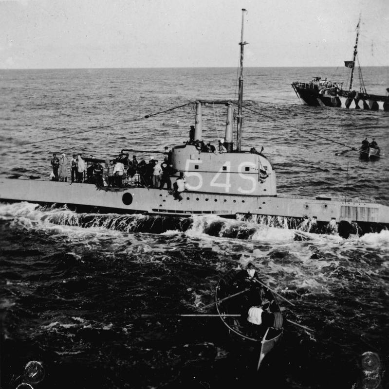 The Last of Hm Submarine Shark. June 1940, South-east of Stavanger, Norway. HMS Shark, Powerless To Dive Or Steer, Just Before She Was Sunk by Her Own Crew To Prevent Her Capture by the Germans. the Pictures Were Taken From a German Trawler Which Had Been Sent Out To Take the Shark in Tow. They Came Into the Possession of the Admiralty. Wounded men of HMS SHARK stand on the deck awaiting the arrival of one of the German trawler's boats. At this moment all preparations had been made by the SHARK's crew for the submarine to sink as soon as she was taken in tow by the Germans.